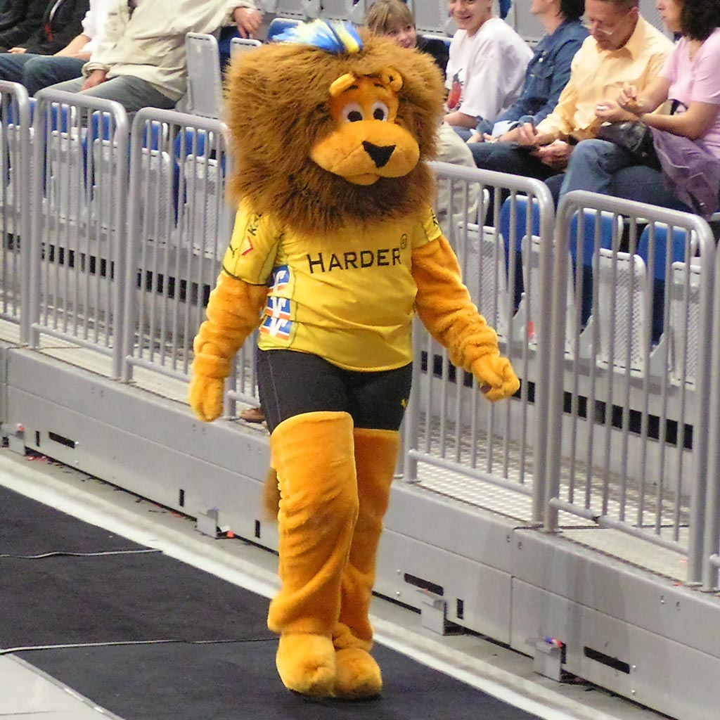 Conny, the mascot of SG Kronau-Östringen, on April 18th 2007 in Mannheim, SAP-Arena (Germany)